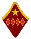 Rank insignia of the Workers' and Peasants' Red Army, here "Commander of the army 1st Class" – overcoat collar patch Army 1935 – 1940.